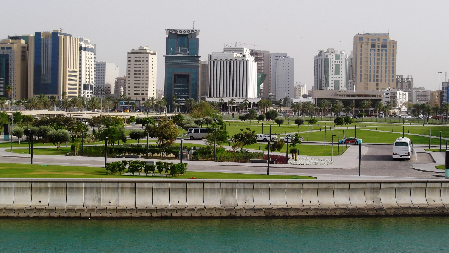 Doha Chorniche, Qatar